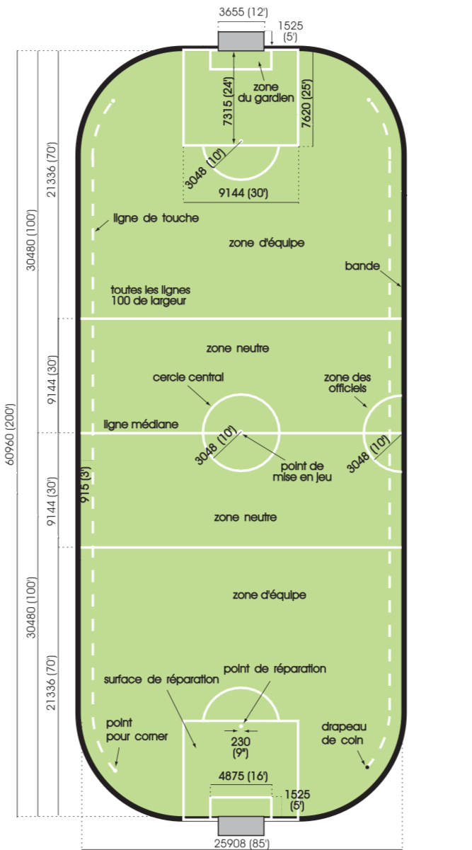 Dimensions of North American indoor soccer field